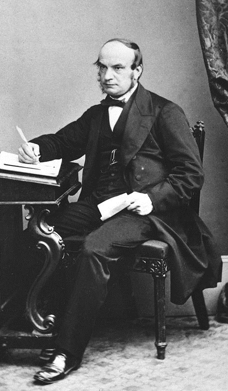 John Couch Adams (1819-1892)